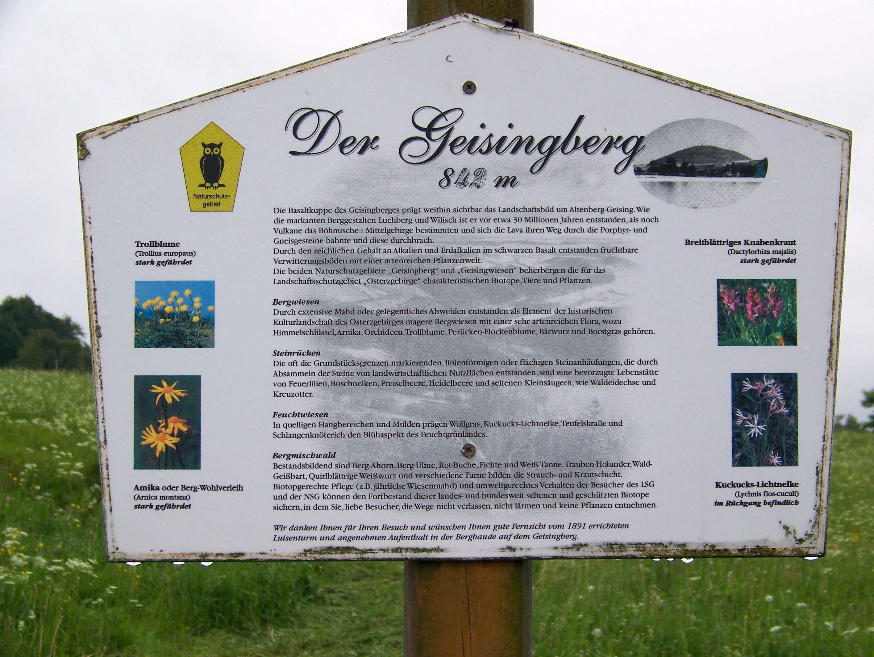 Geisingberg – Information panel on nature reserve